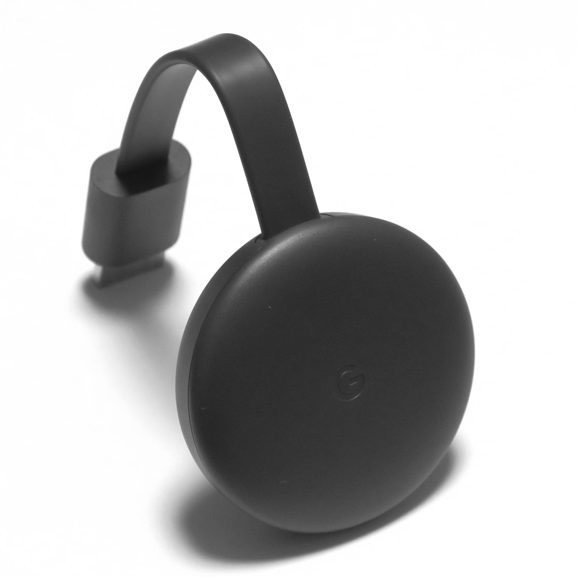 Chromecast (3rd generation).